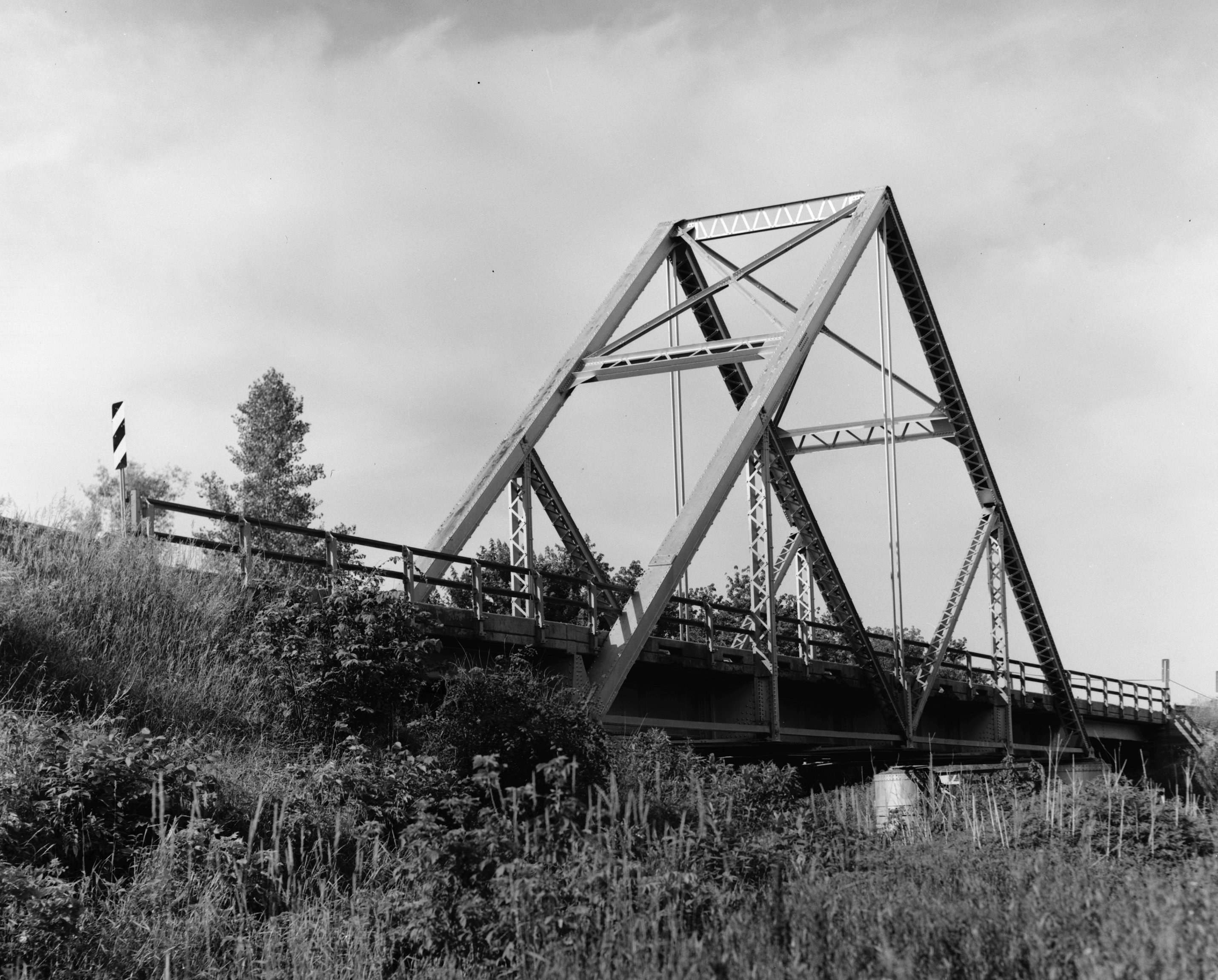 Cropped version of original, Waddell "A" Truss Bridge, Spanning Lin Branch Creek, Trimble vicinity, Clinton County, MO. (9. LONG DISTANCE GENERAL SIDE VIEW. HAER MO,25-TRIM.V,1-9)